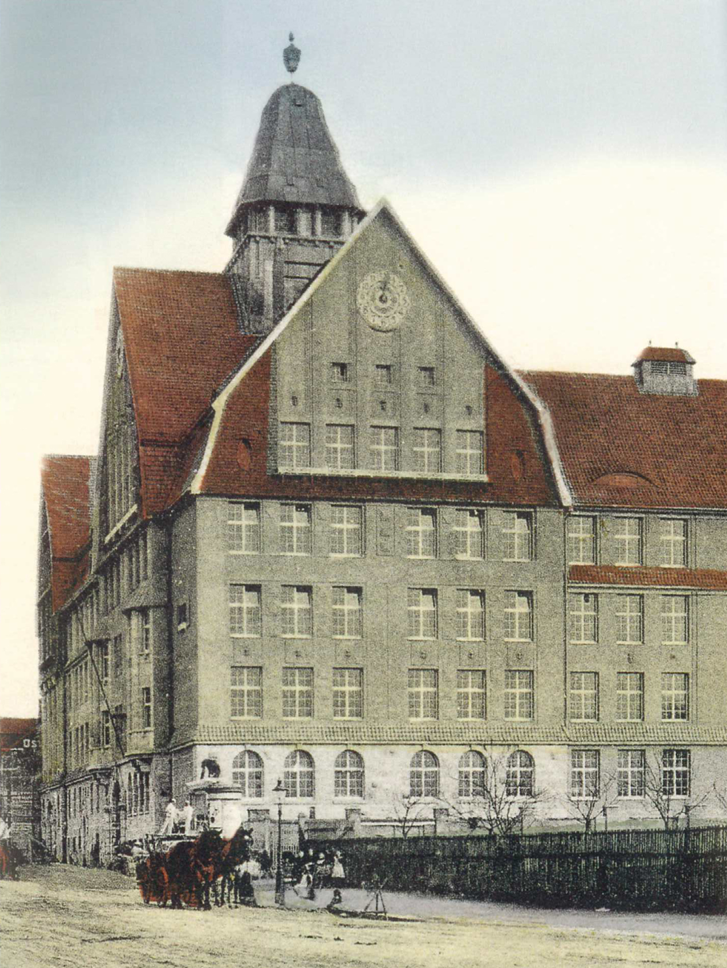 A painting of the front of the school building. It is approximitly from 1915 - 1920.